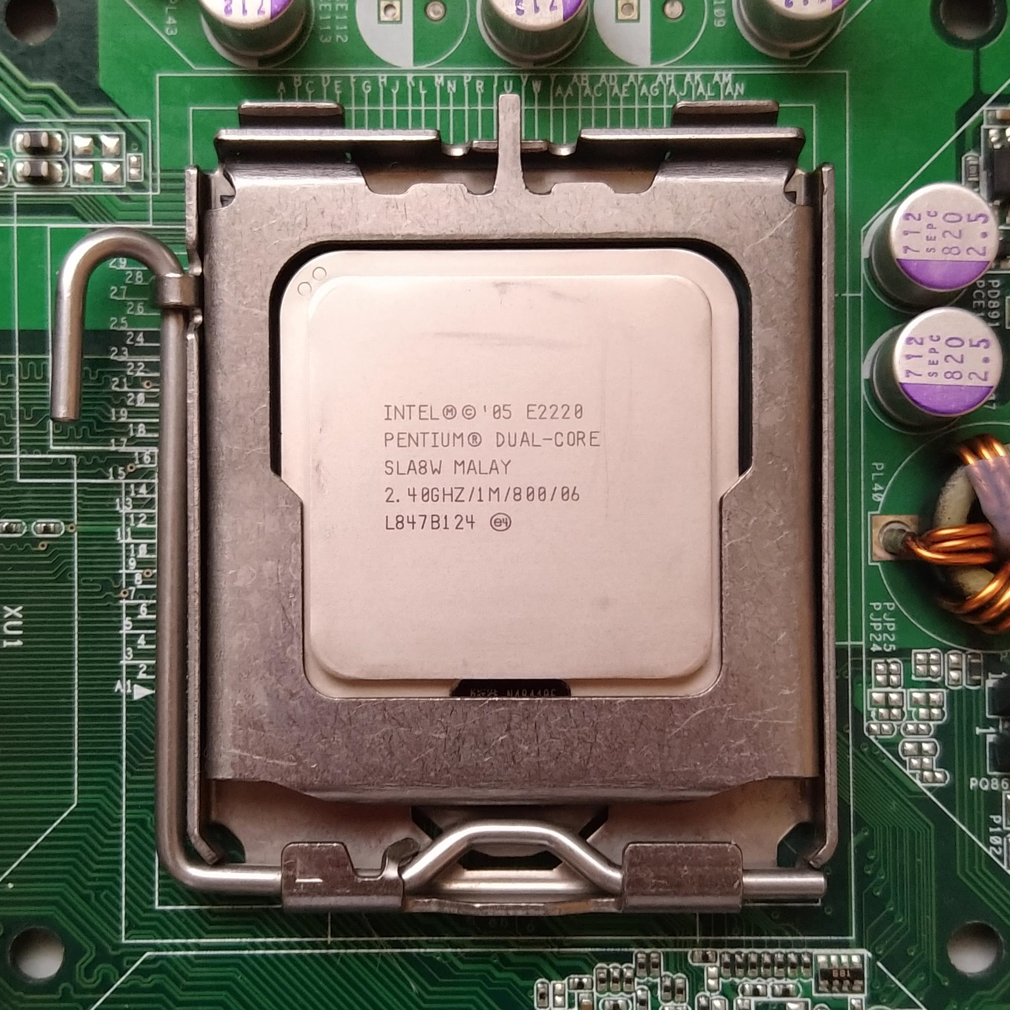 A Intel Pentium Dual-Core E2220 2.40 GHZ, 1 MB cache (circa 2008); installed on a Intel D945GCCR motherboard